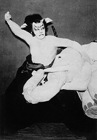 Sanshō Ichikawa V (Danjūrō X) (1882–1956) as Yamagami Gennaizaemon Nagatada in October 1933 Kabuki-za prodction of Zōhiki